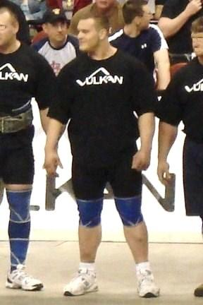 Louis-Philippe Jean from Quebec, Canada.